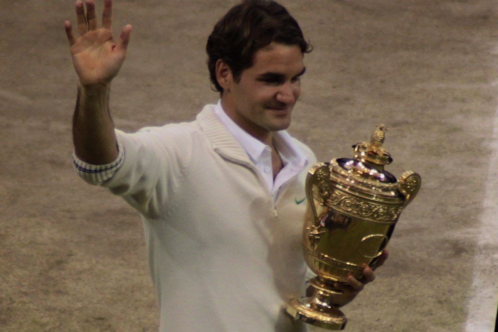 Roger Federer with the Men's Singles trophy at Wimbledon, 2012